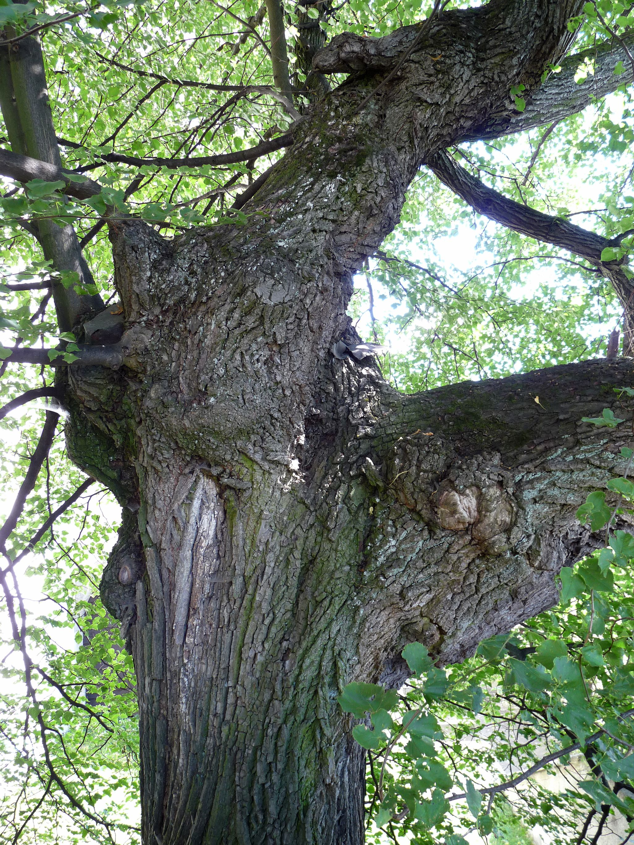 Tilia of Innocence Buchlov castle in Uherské Hradiště District, Zlín Region, Czech Republic